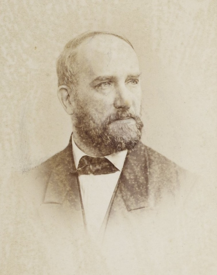 Dietrich Reimer